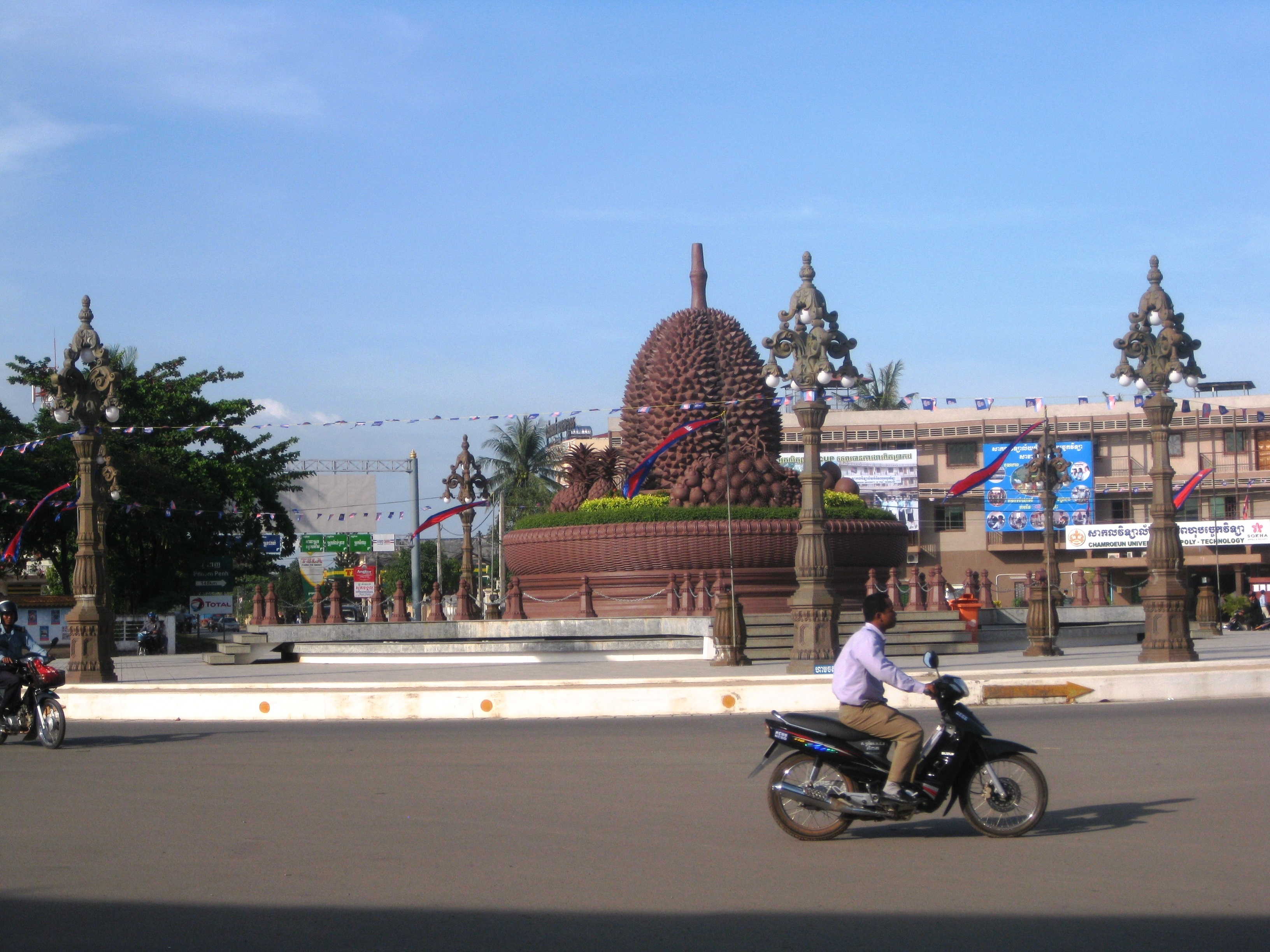 One of several roundabouts in Kampot Town, provincial town of Kampot Province.